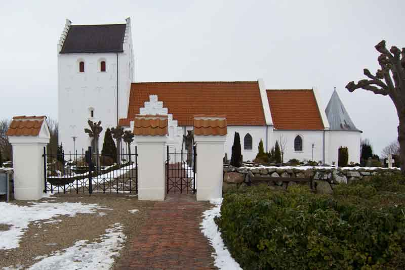 Taulov Kirke, church situated in Taulov, Denmark